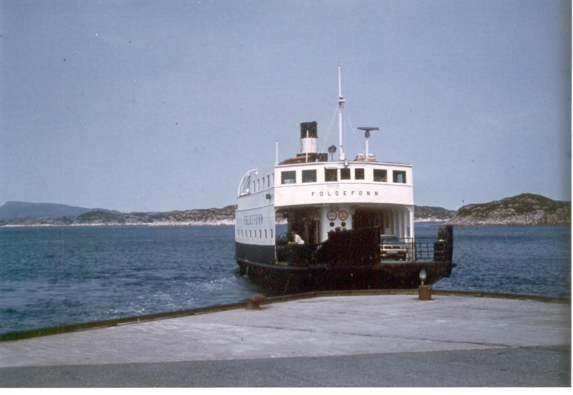 M/F Folgefonn, built 1938 in Hufthamar, Austevoll, Norway in 1978. M/F Folgefonn was the first roll-on/roll-off car ferry built for use in Norway.